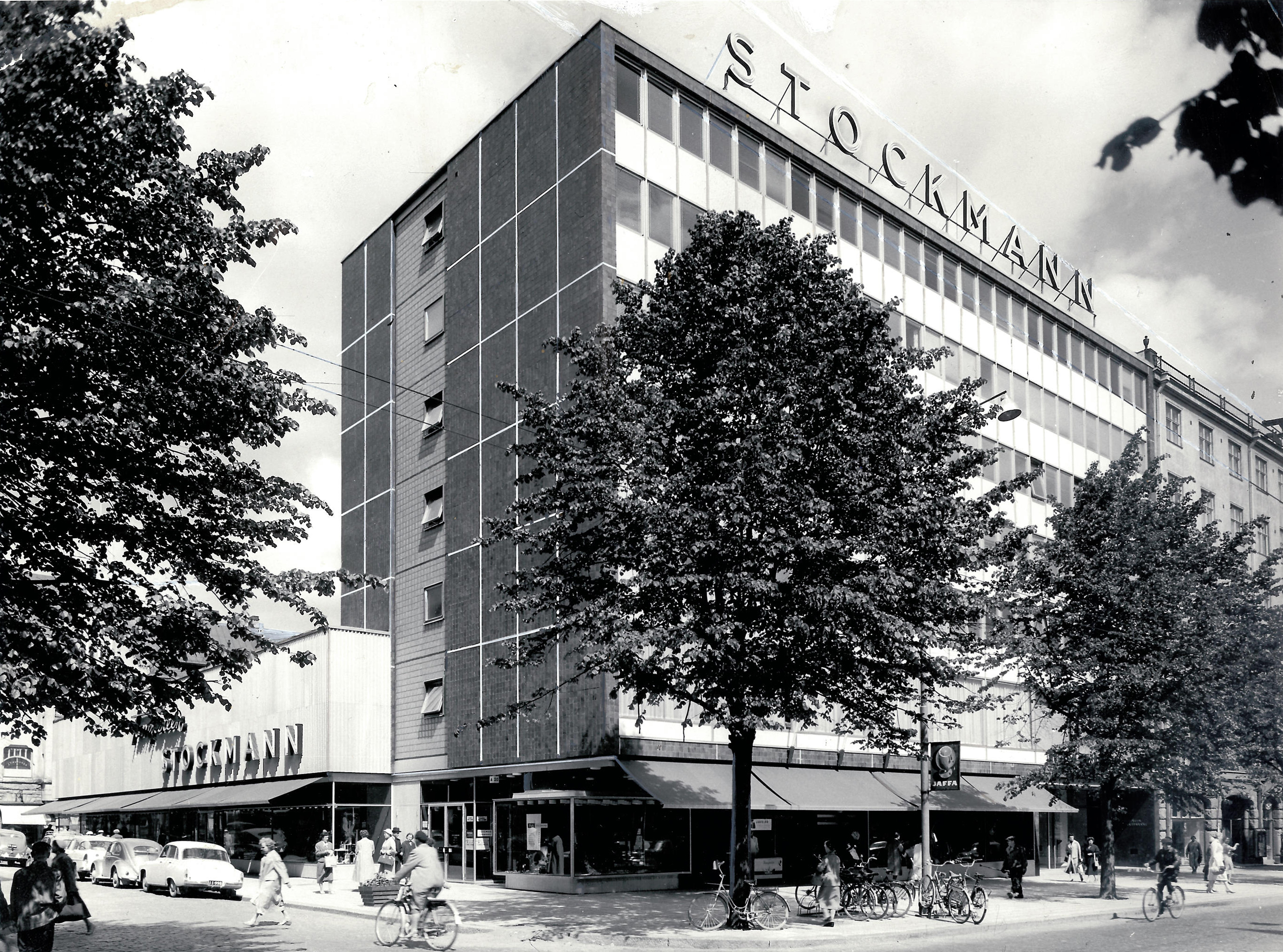 The Tampere department store was opened in 1957.